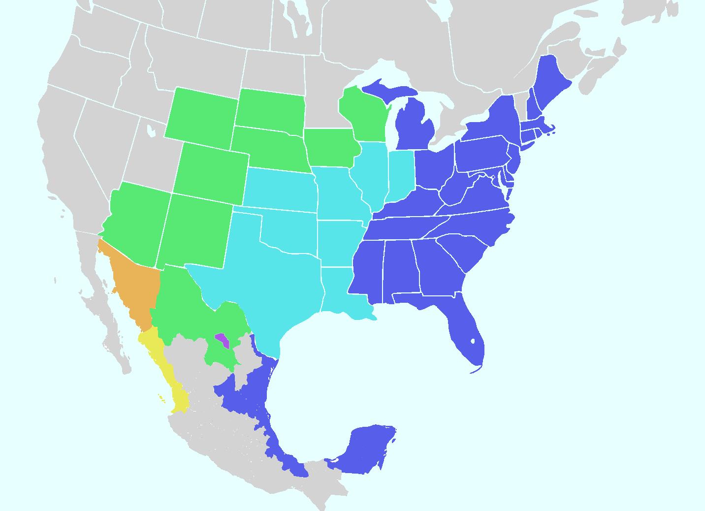 Distribution map of box turtle (Terrapene). blue: Terrapene carolina green: Terrapene ornata yellow: Terrapene nelsoni light blue: Terrapene carolina + Terrapene ornata orange: Terrapene nelsoni + Terrapene ornata violet: Terrapene coahuila + Terrapene ornata